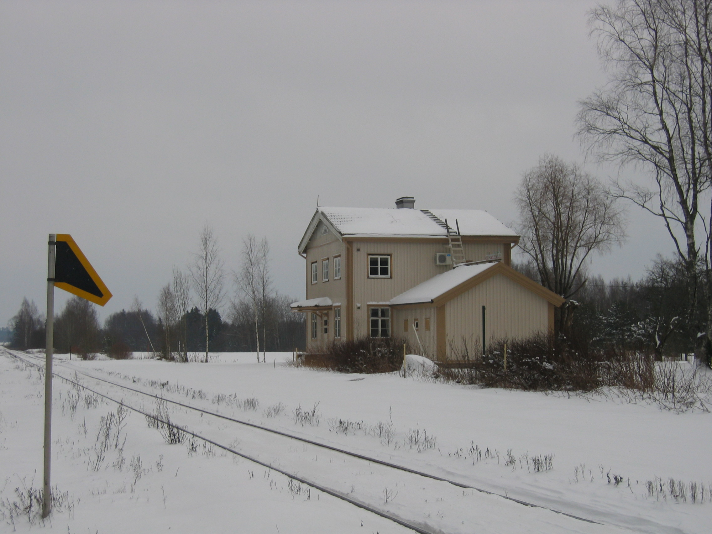 Hietamäki railway station in Mietoinen, Finland. Building seen from Kappelimäentie road.